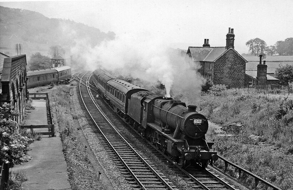 Down empty stock train passing the remains of Hassop Station. View westward, towards Bakewell, Matlock and Derby; ex-Midland Peak main line, Derby - Matlock - Buxton/Manchester. The train of mixed stock running as Special 3Y45, is headed by Stanier 8F 2-8-0 No. 48770. Hassop station had long since been closed to passengers (17/8/42) but was still open for goods; the coaches in the siding on the Up side may have been Camping Coaches.